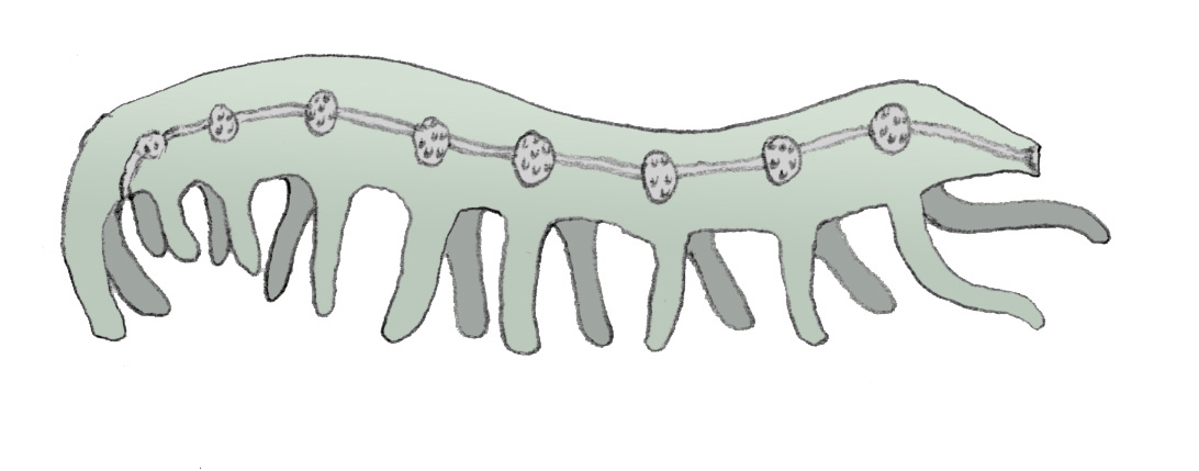 Reconstruction of Microdictyon, an extinct lobopodan